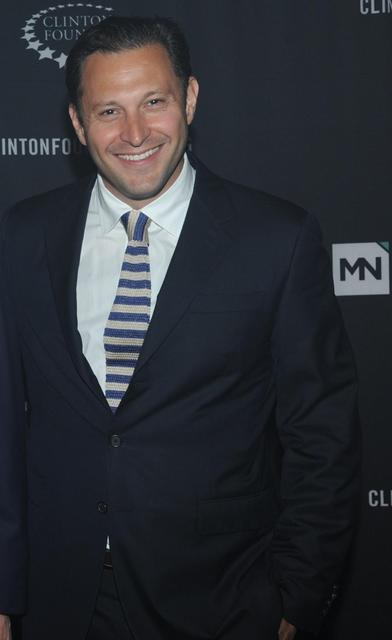 Photo for new page on British executive, photo released into public domain by page subject.